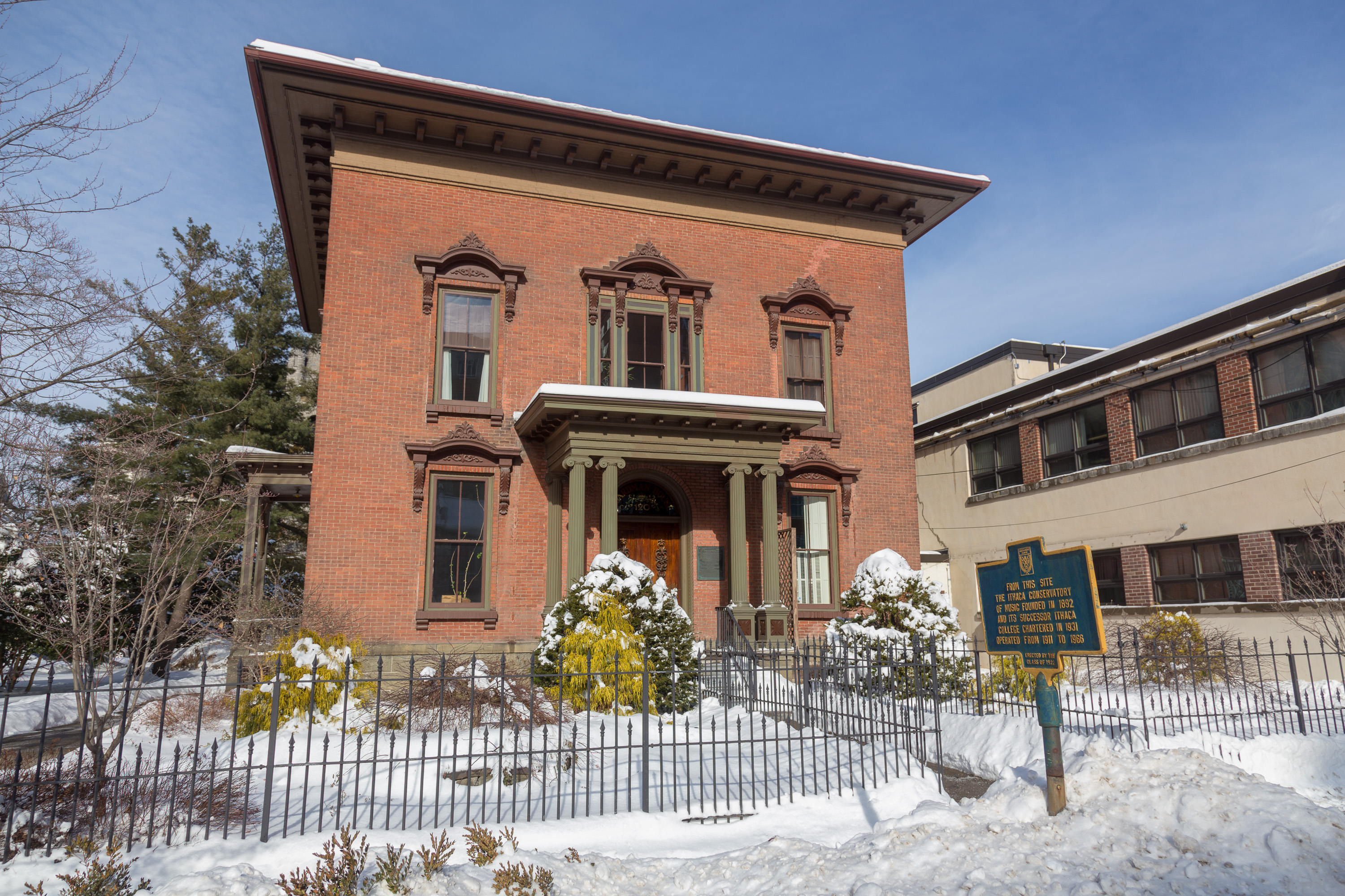 Boardman House, the original site of Ithaca Conservatory of Music, which became Ithaca College. 120 East Buffalo Street.